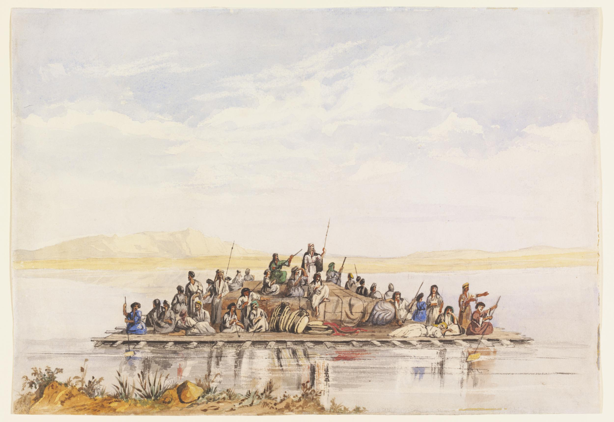 Place of Origin: Nimrud, Iraq (painted) Materials and Techniques: Watercolour over pencil, with scratching out, on stiff paper Marks and inscriptions: Lettered on former mount with title Dimensions: Height: 23 cm, Width: 33 cm Historical context note: Formerly attributed to Layard: see Searight Archive. Layard describes the removal of the winged bull from Nimrud in Nineveh and Its Remains, 1849, Ch.XIII. It was loaded on to a raft and, on 22 April 1847, sent off down the Tigris to Basrah. Although Cooper was not present on this occasion, he subsequently witnessed similar events, and would have been able to reconstruct the scene, perhaps using a sketch by Layard to Layard's second expedition to excavate the ruins of ancient Nineveh in 1849-51: see his Discoveries in the ruins of Nineveh And Babylon; with travels in Armenia, Kurdistan and the Desert: being the result of a second expedition undertaken for the Trustees of the British Museum, 1853. Cooper's diary for January-August 1850 was in the possession of a descendant, Mrs Irene Lyon Coldstream: see photocopy in the Searight Archive. Other drawings from this expedition are in the BM, Department of Western Asiatic Antiquities. An oil, Scene from the Excavations at Nineveh, 1852, was formerly with the Mathaf Gallery, London. Descriptive line: Watercolour, `Raft Conveying Winged Bull to Baghdad', about 1850, by Frederick Charles Cooper